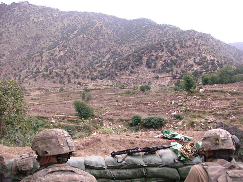 US Army soldiers man Vehicle Patrol Base (VPB) Kahler near Wanat, Afghanistan on July 12, 2008, the day before being attacked and nearly overrun by 200 Taliban fighters.